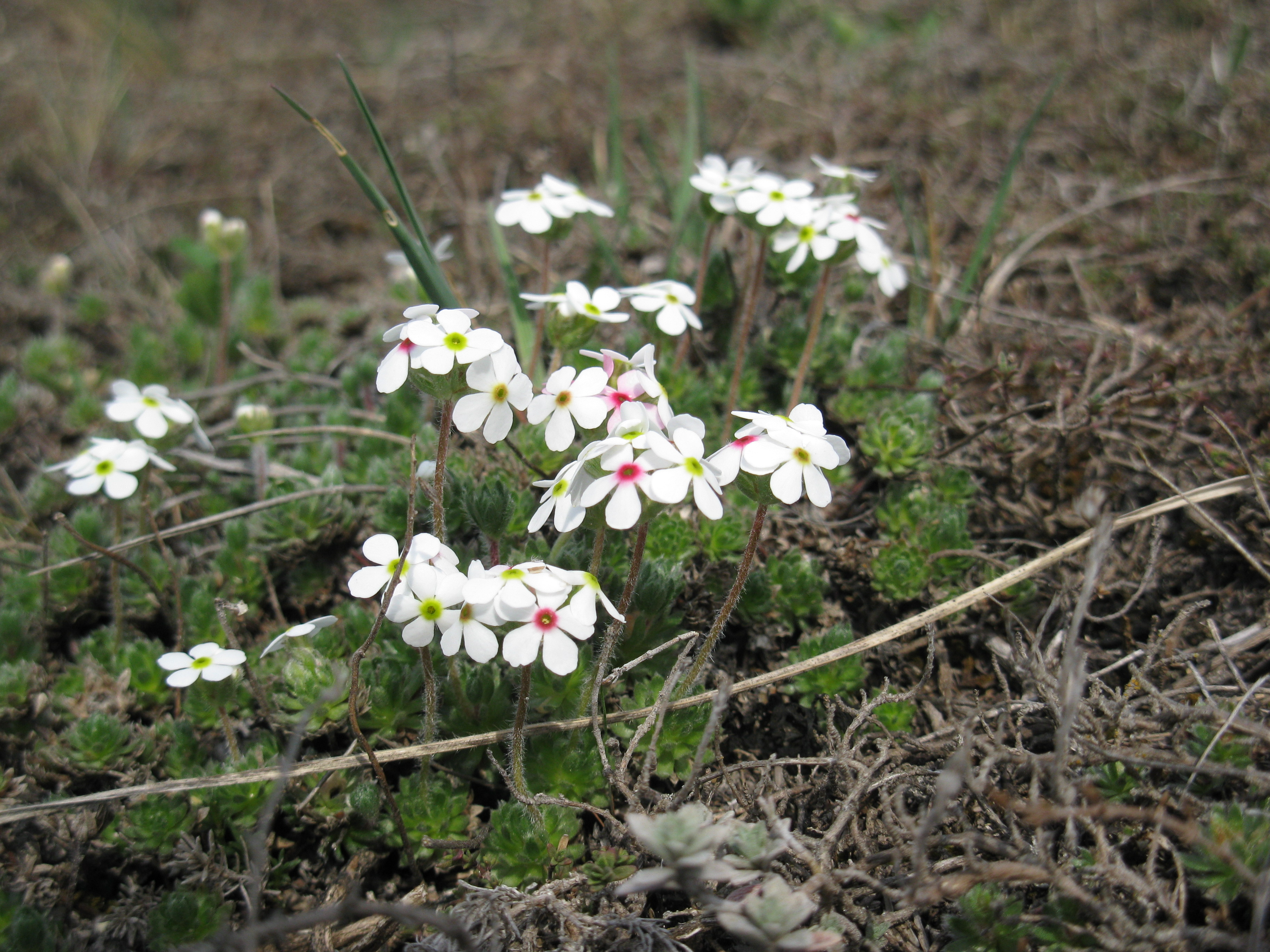 Androsace koso-poljanskii Ovcz. Alexeyevka, Belgorod Region, Russia